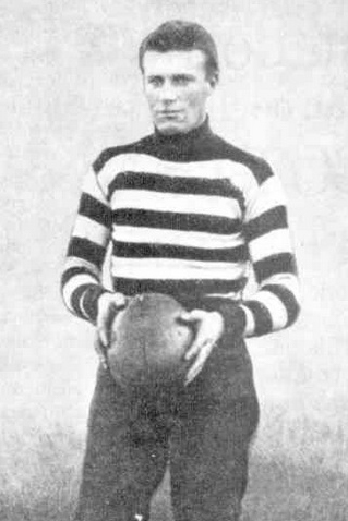 Photograph of Les James from the 1910 Weekly Times Victorian Footballer Postcard Series